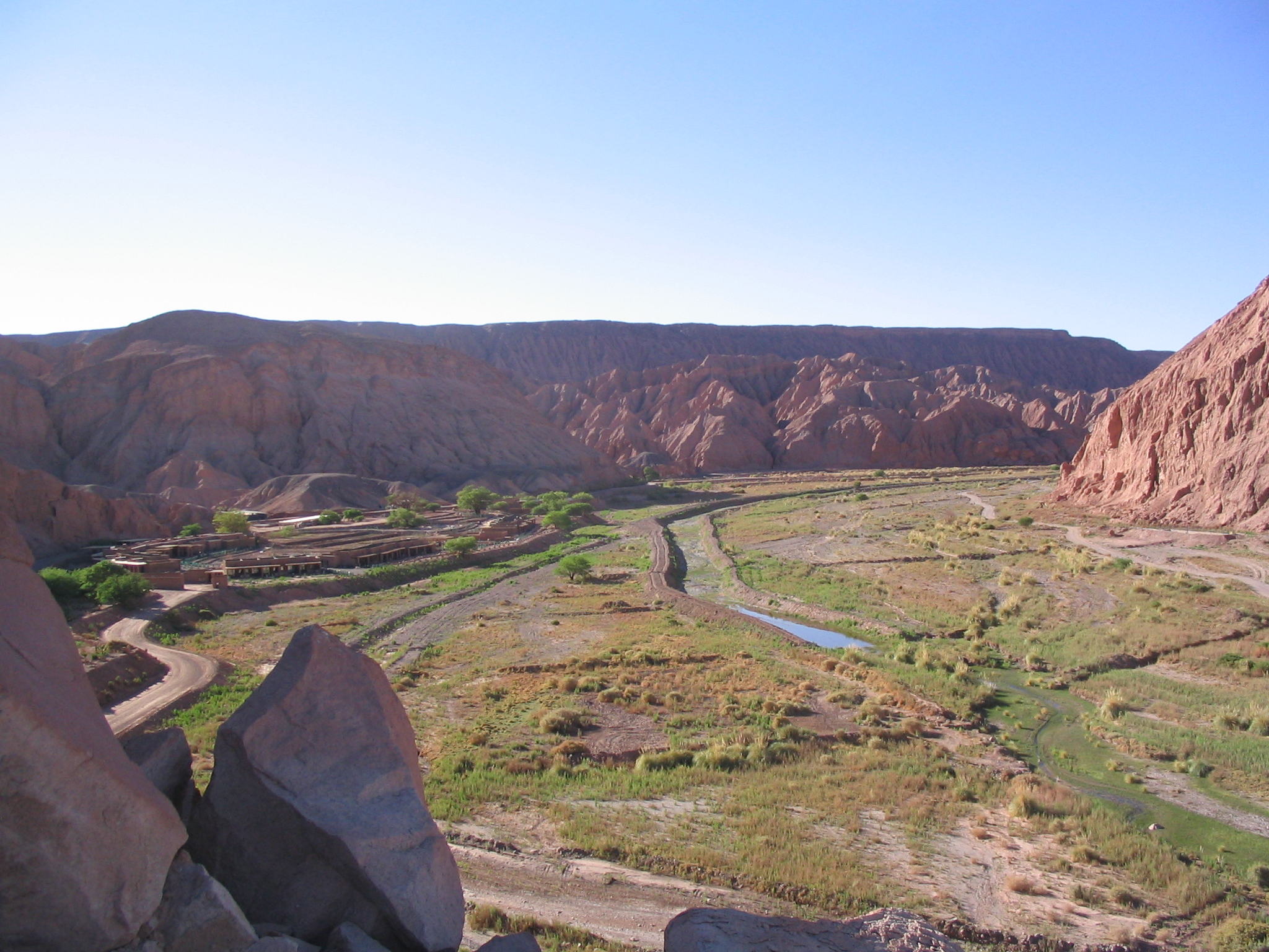 San Pedro River, Chile. Ayllu Suchor, San Pedro de Atacama. Foto taken from Pukará de Quitor.